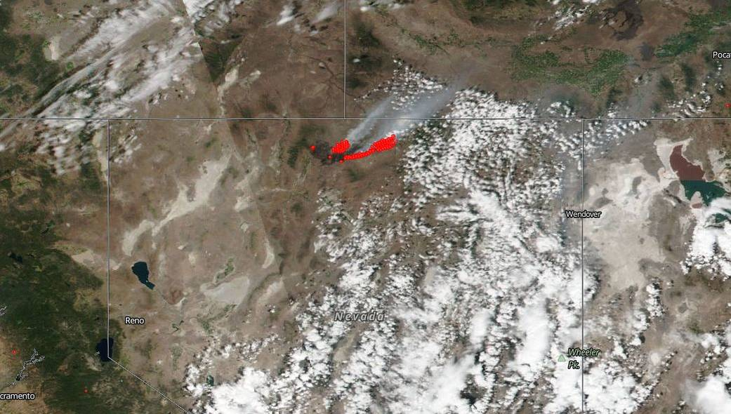 NASA's Suomi NPP satellite captured this image of the fire and smoke blowing from it on July 08, 2018 with the Visible Infrared Imaging Radiometer Suite (VIIRS) instrument. Actively burning areas (hot spots), detected by thermal bands, are outlined in red. Each hot spot is an area where the thermal detectors recognized temperatures higher than background. When accompanied by plumes of smoke, as in this image, such hot spots are diagnostic for fire.